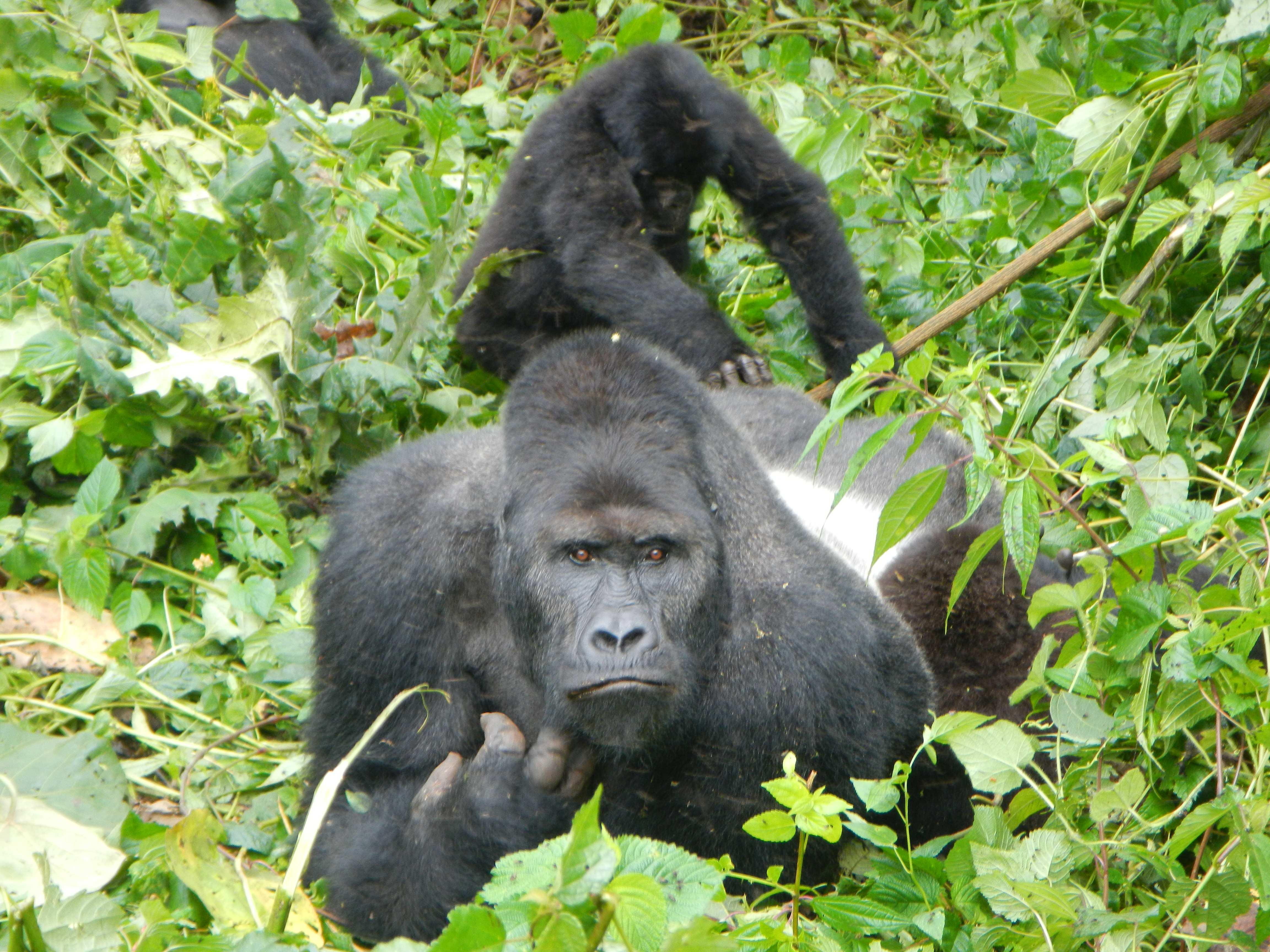 KBNP Silverback and Child